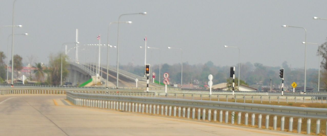 Second Thai–Lao Friendship Bridge-Thai entrance — change of traffic directions (left hand side to right hand side).